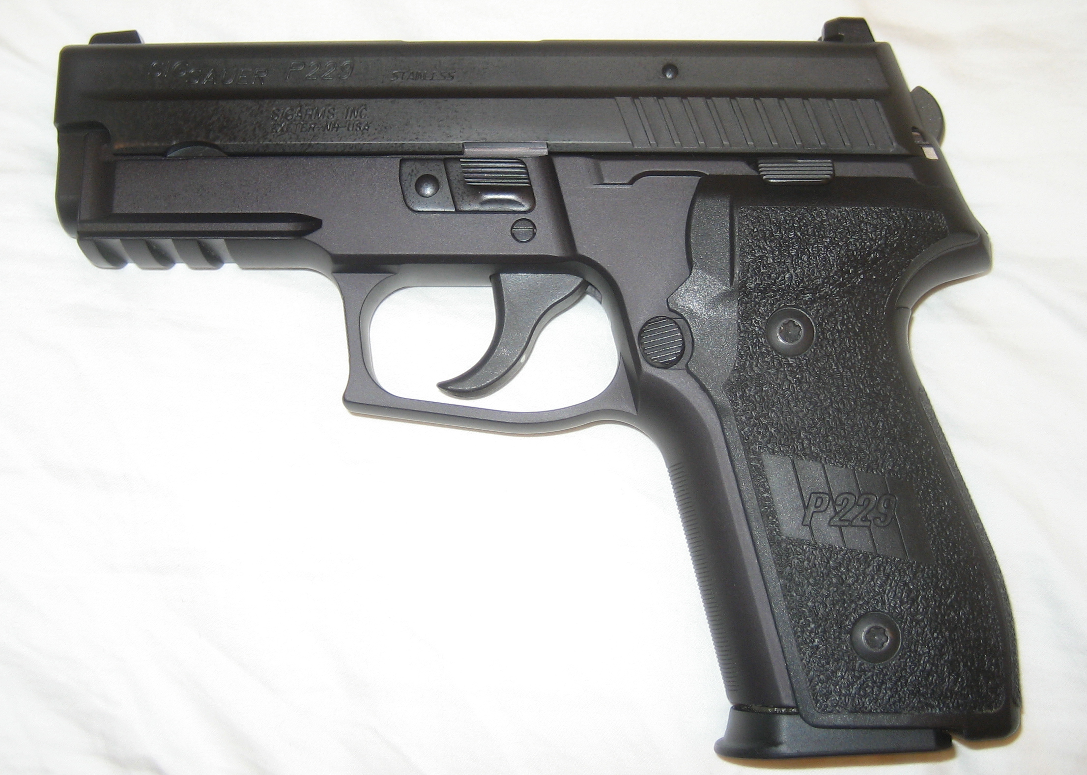 This is a photo of a Sig Sauer P229R DAK